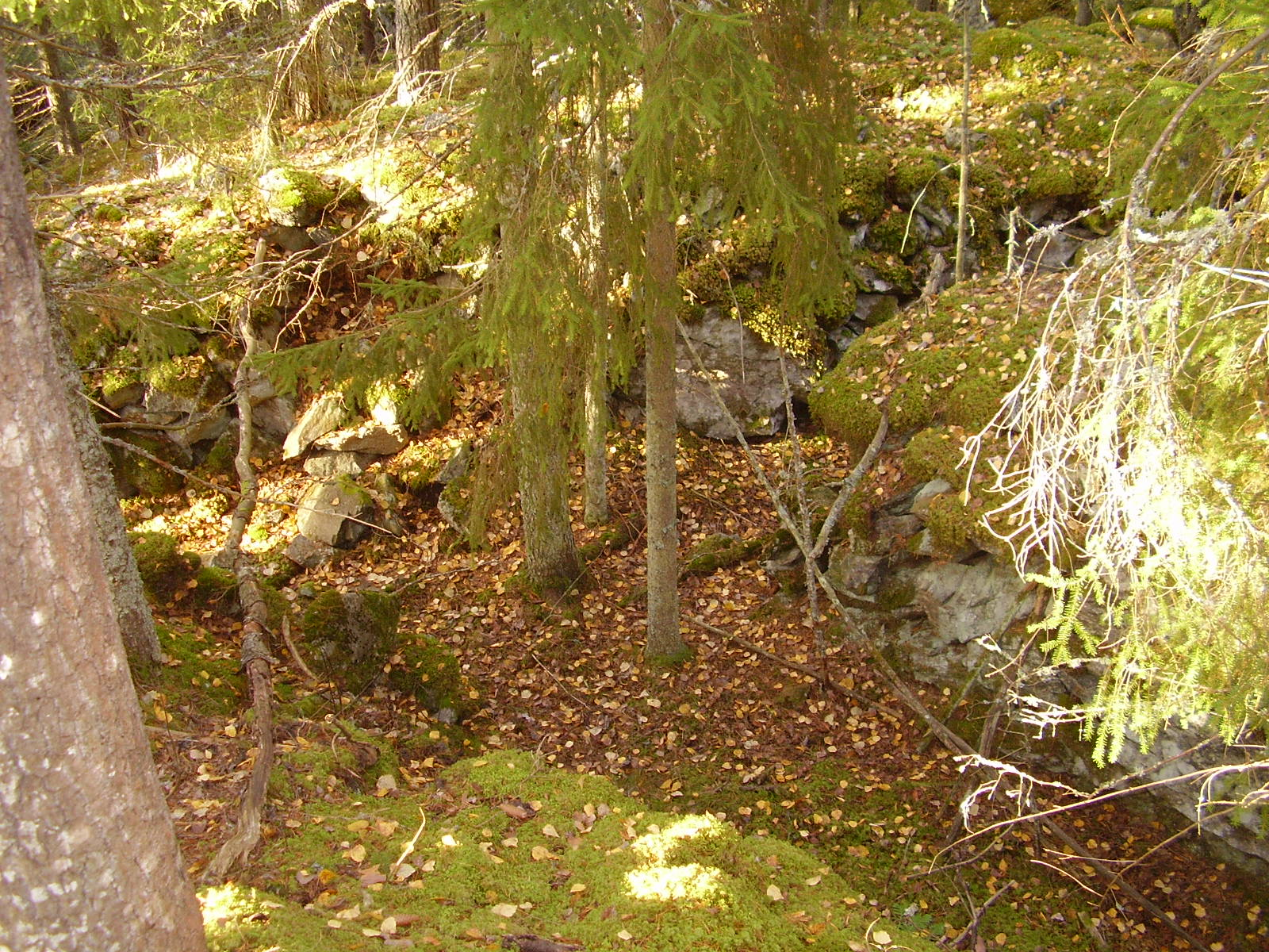 Carved into the rock of the First World War trench. A wide network of trenches Jänismäki. Depth varies between 2-4 meters. Year of construction 1915.